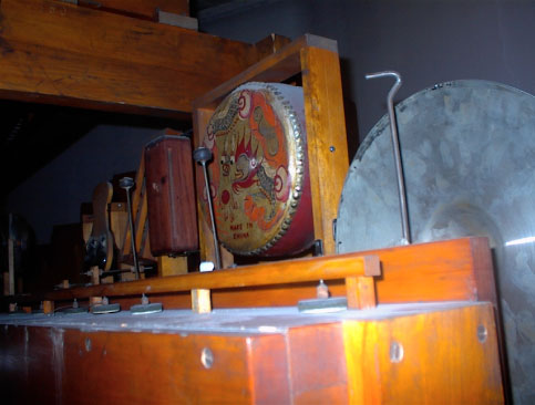 The "Toy Counter" in the Solo Chamber at Ann Arbor's Michigan Theatre (3/13 Barton)